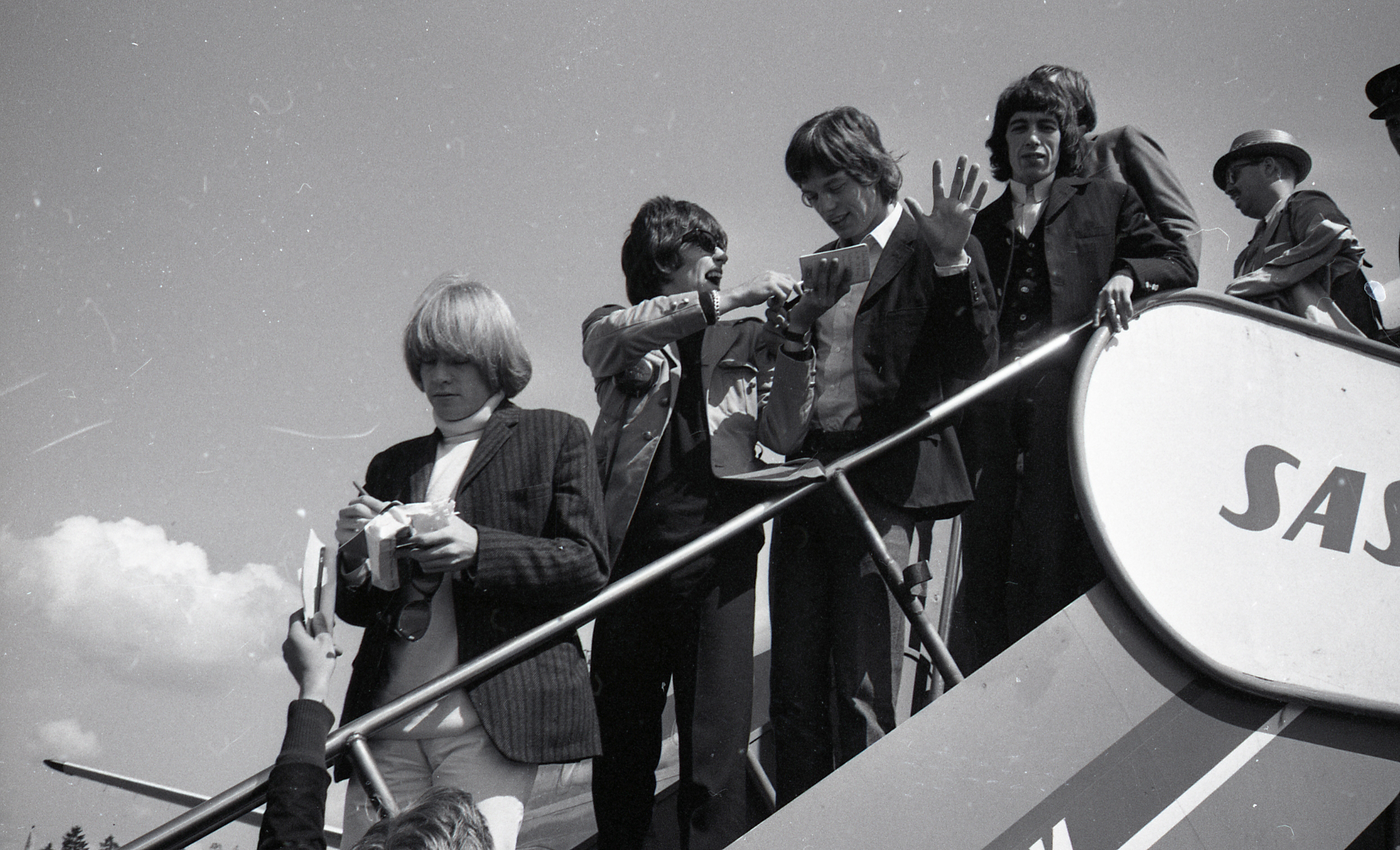 The Rolling Stones arrive at Fornebu airport in Oslo, June 1965.